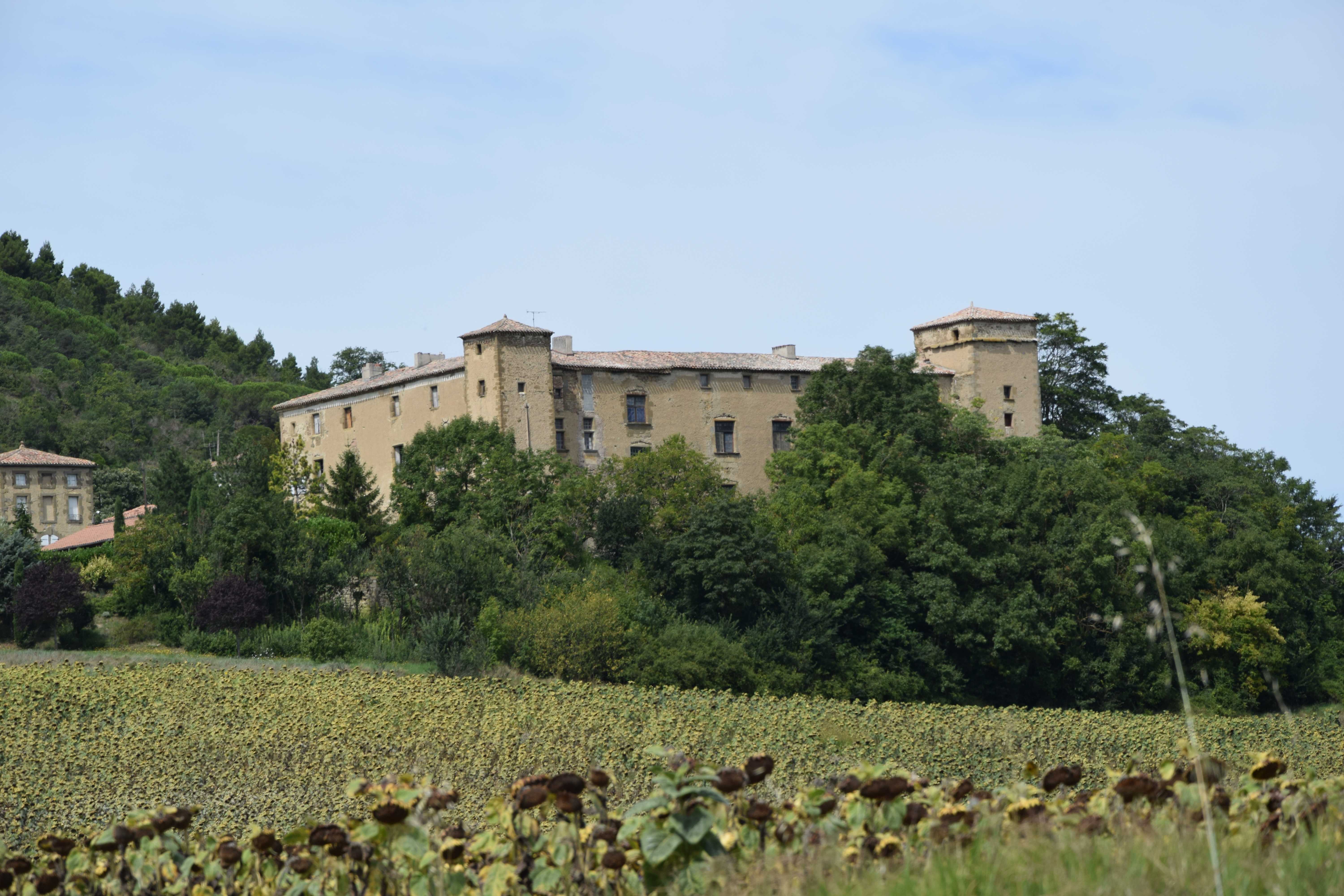 Castle of La Serpent